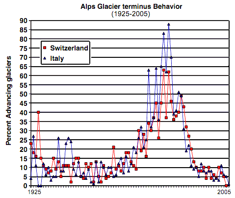 Behavior of alps glacier terminus locations